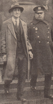 Israel Amter